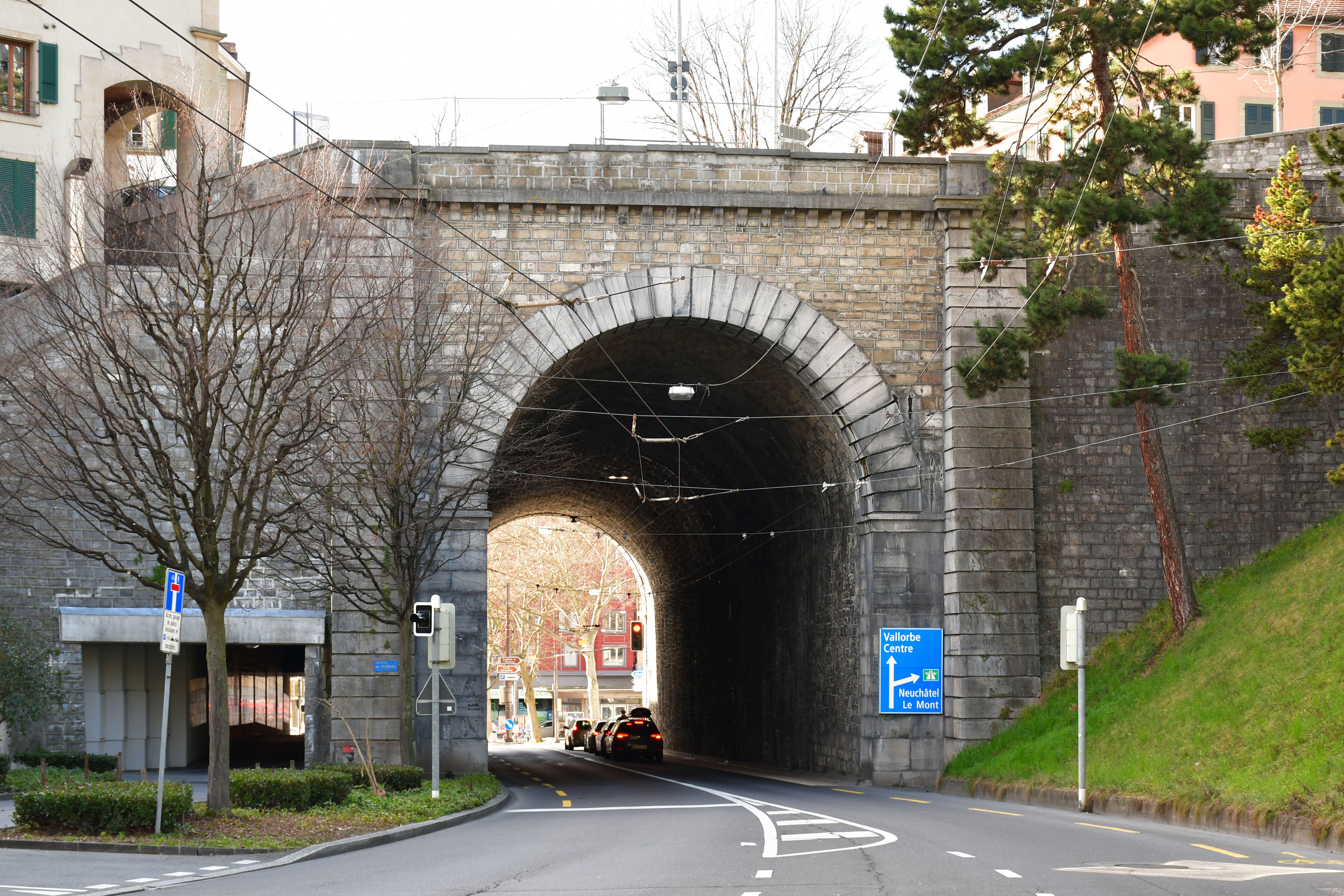 The east portal of the Barre Tunnel, between César Roux street and Tunnel square, in Lausanne (Switzerland).